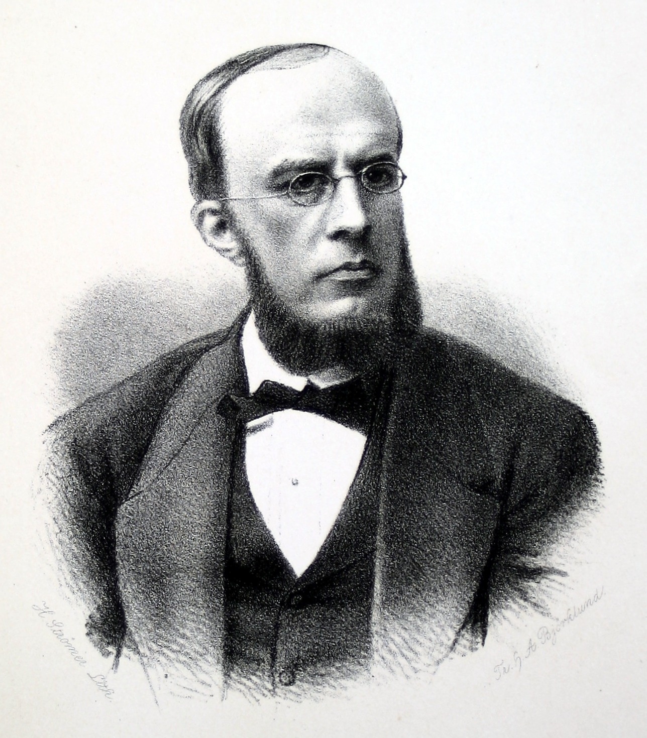 Portrait of Gustaf Holdo Stråle af Ekna from the book "Svenska industriens män" (1875)